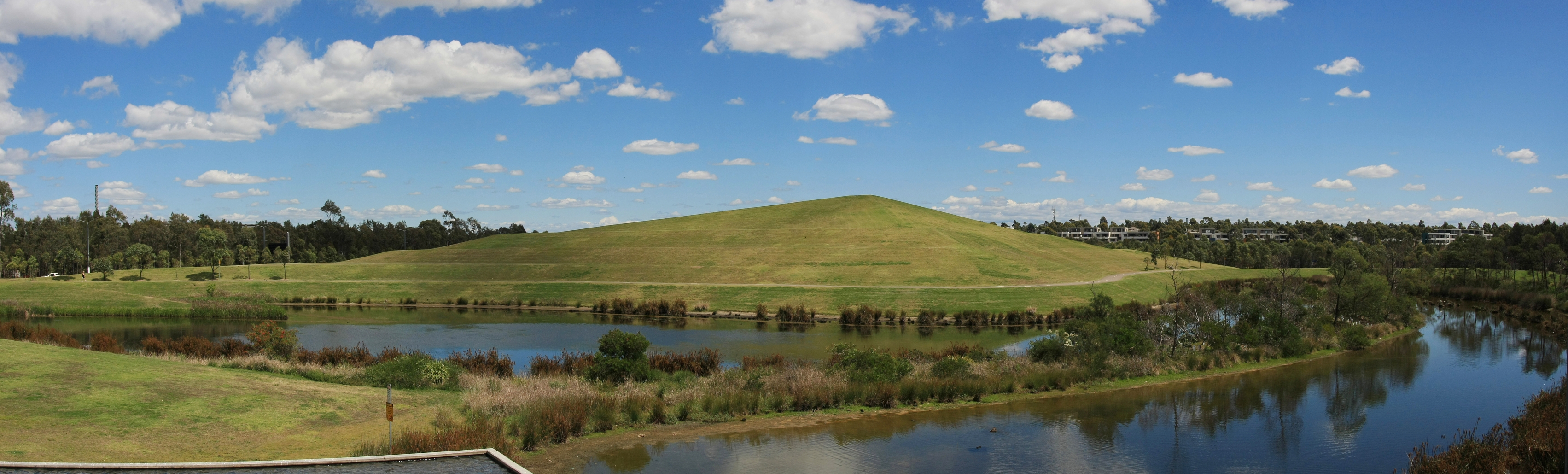 Sydney olympic park